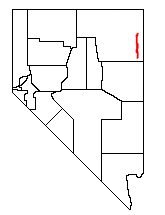 Location of the Toano Range within Nevada.